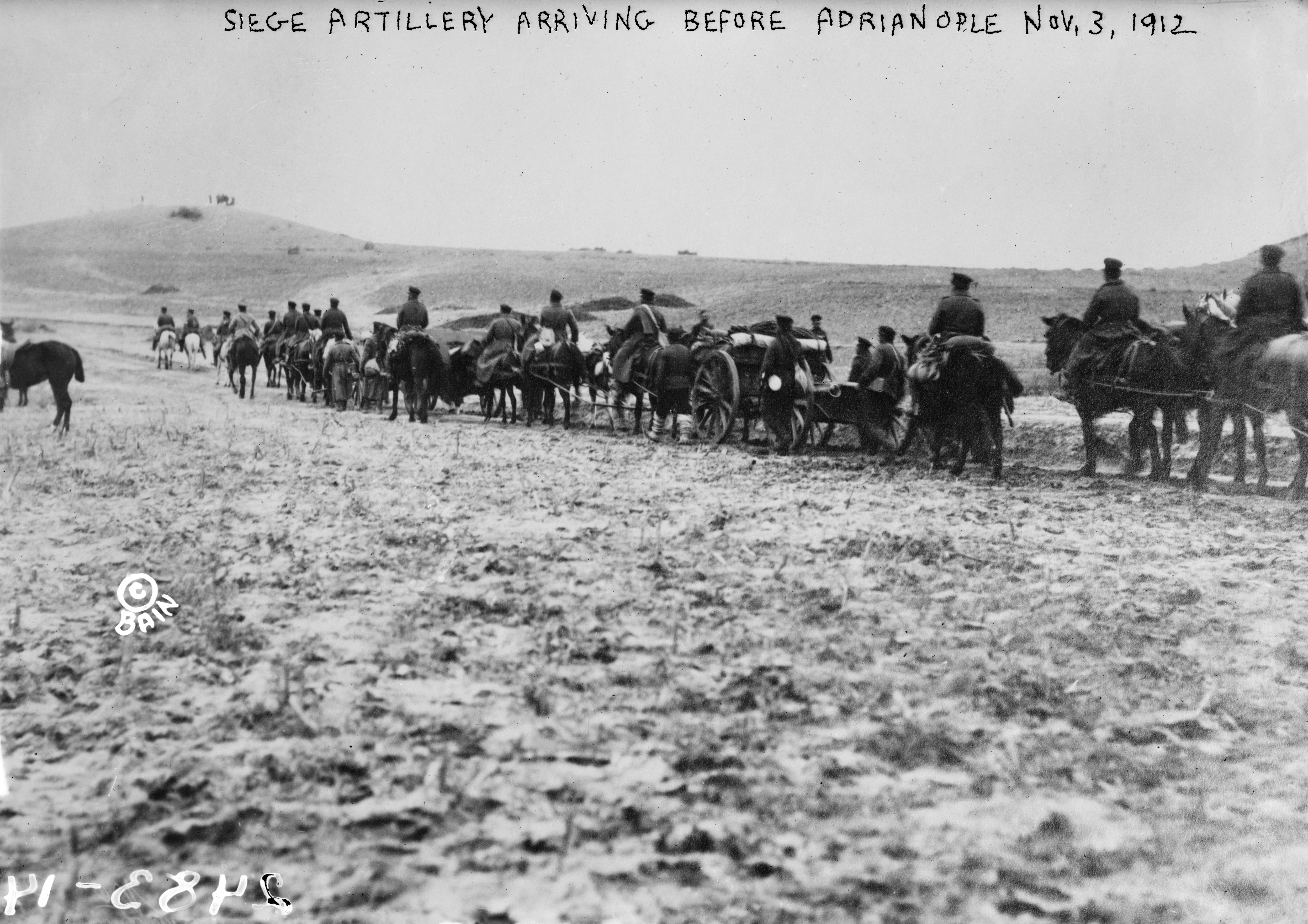 Library of Congress TITLE: Siege artillery arriving before Adrianople, Nov. 3, 1912 CALL NUMBER: LC-B2- 2483-14[P&P] REPRODUCTION NUMBER: LC-DIG-ggbain-11202 (digital file from original negative) RIGHTS INFORMATION: No known restrictions on publication. MEDIUM: 1 negative : glass ; 5 x 7 in. or smaller. CREATED/PUBLISHED: Nov. 3, 1912. CREATOR: Bain News Service, publisher.